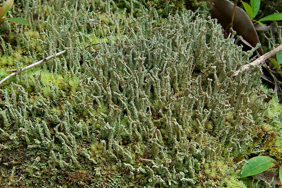 Scientific Name: Cladonia squamosa Hoffm. Common Name: Dragon Cladonia Certainty: positive (notes) Location: Central Appalachians; George Washington NF; Shenandoah Mt Date: 20060730